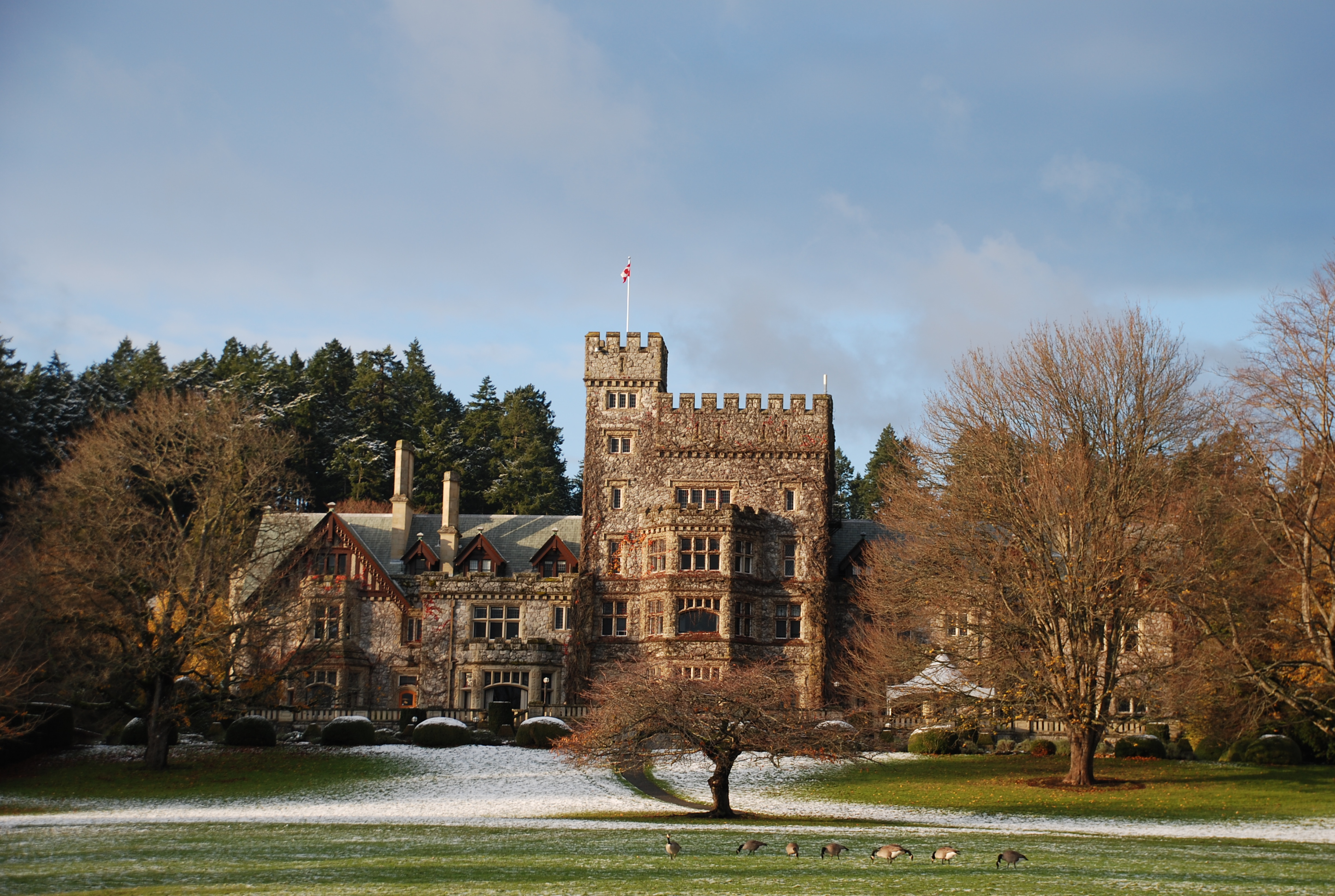 Royal Roads University